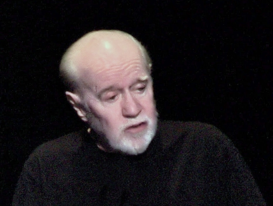 Carlin is in my all time top 5 comedians. I'm so happy I got to see him while he still performs